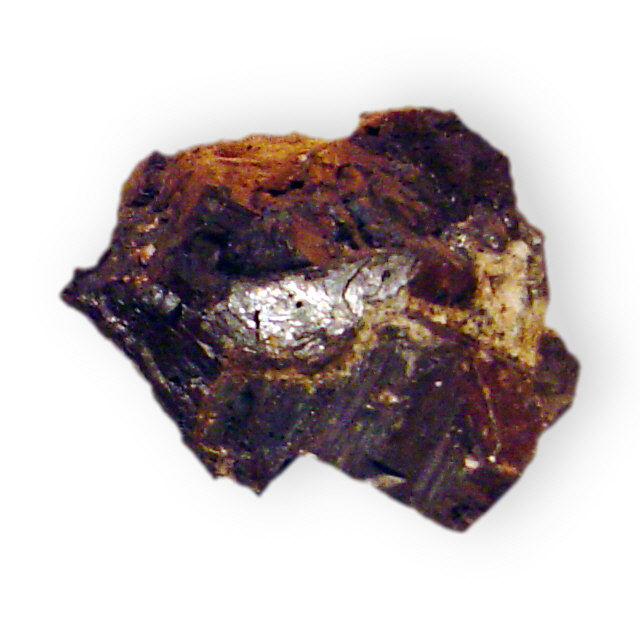 These mineral images are free to use how you wish.